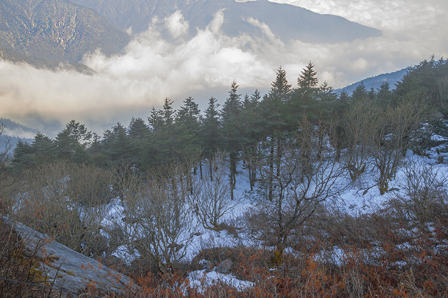 The landscape of Pangolakha Wildlife Sanctuary in East Sikkim, India taken on 13.02.2016. during the photography trip of GoingWild.